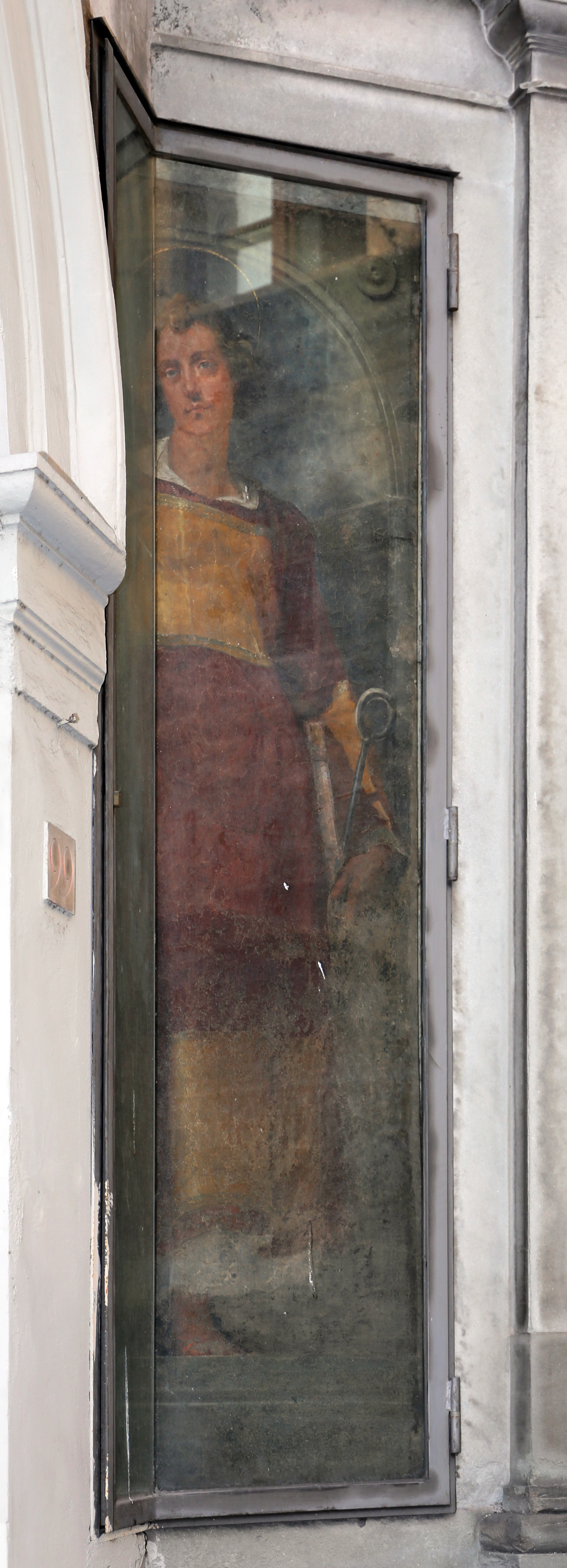 Florence, miscellany